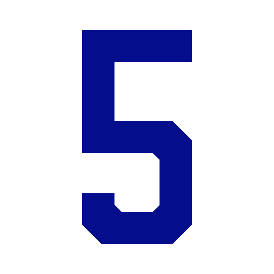 A recreation of how it looks like at Kauffman Stadium.